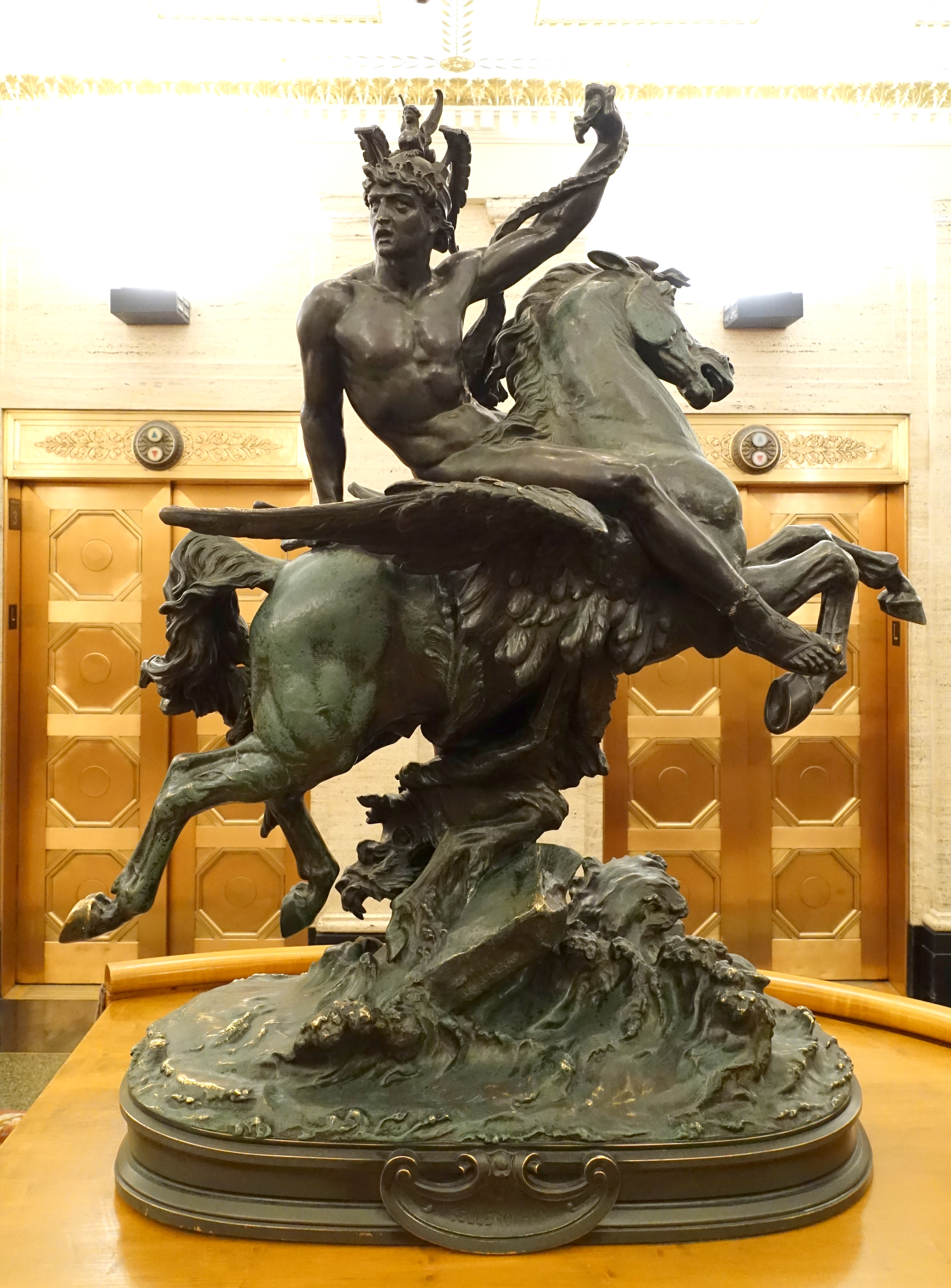 Bellerophon by Pierre-Eugène-Emile Hébert (1828–1893) - Palmer House Hilton Hotel, Chicago, Illinois, USA. This artwork was purchased for the original Palmer House hotel. It is now in the public domain because the artist died more than 100 years ago.